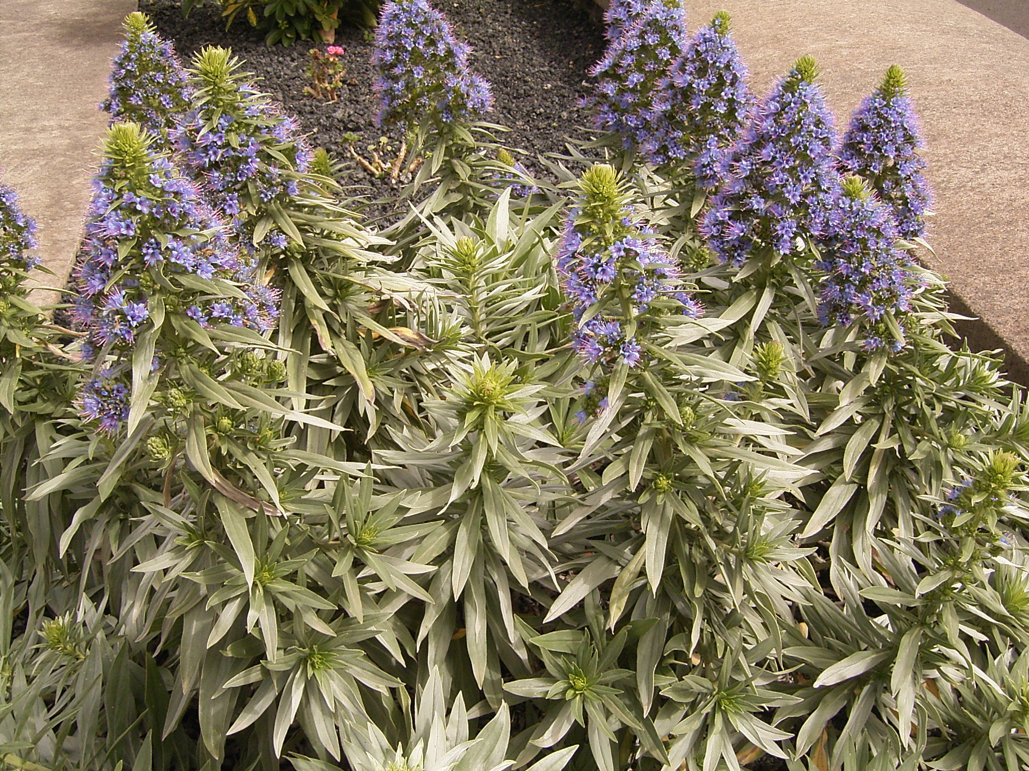 Echium webbii growing in Puntallana, La Palma, Canary Islands